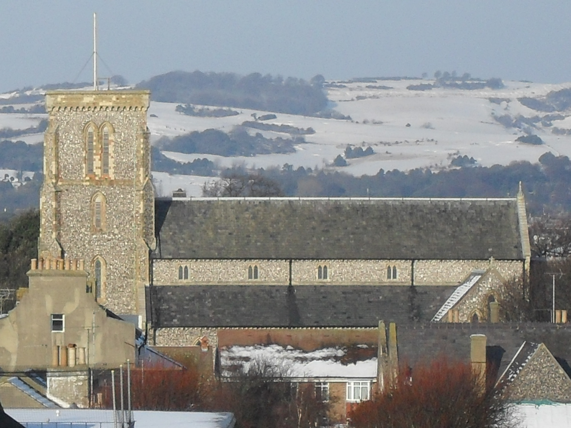 Roofscape of Worthing, West Sussex, England, looking north to Christ Church parish church in Grafton Road, with the South Downs beyond